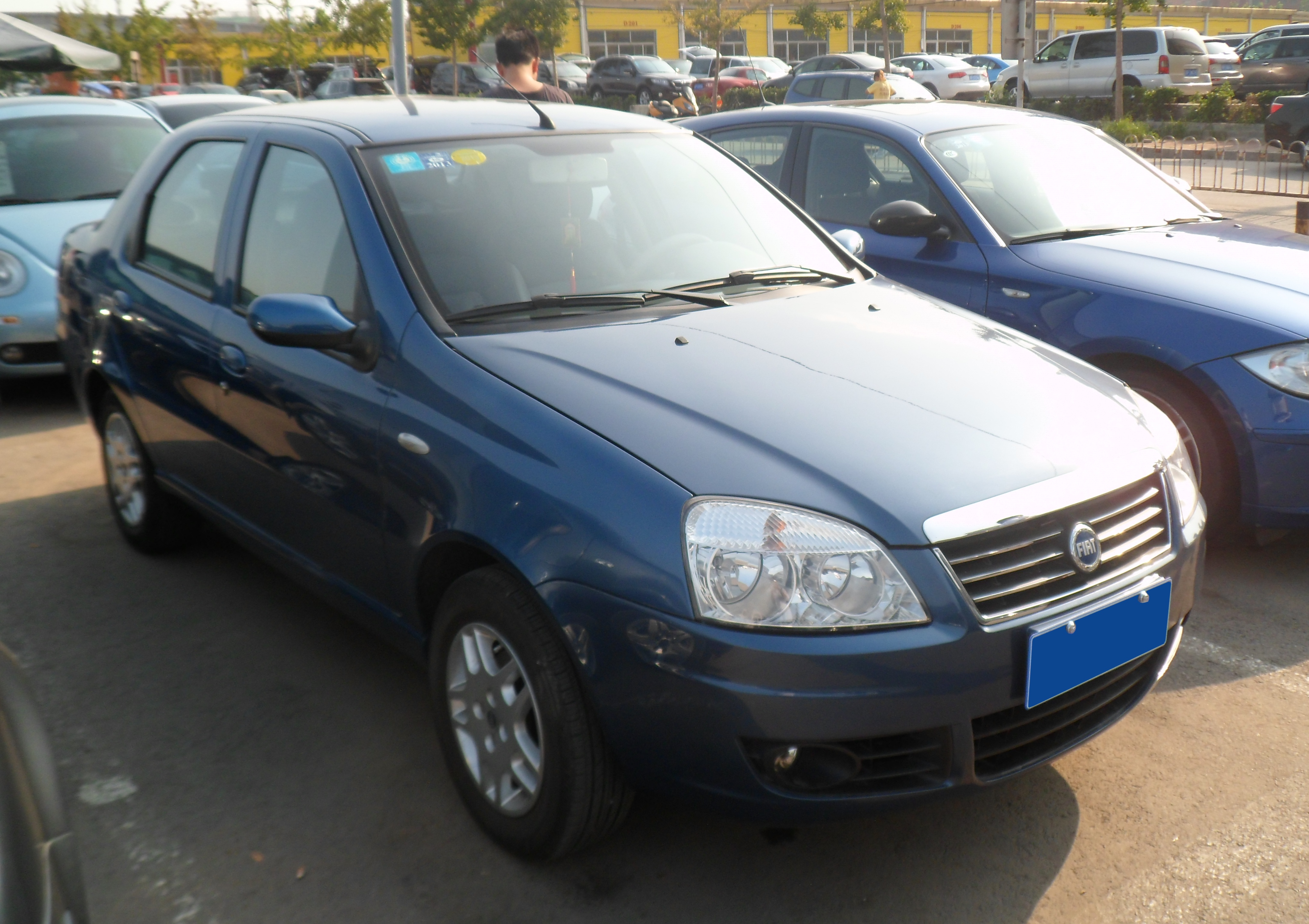 Fiat Perla photographed at the Beijing Used Car Trade Market in Fengtai district, Beijing, China.